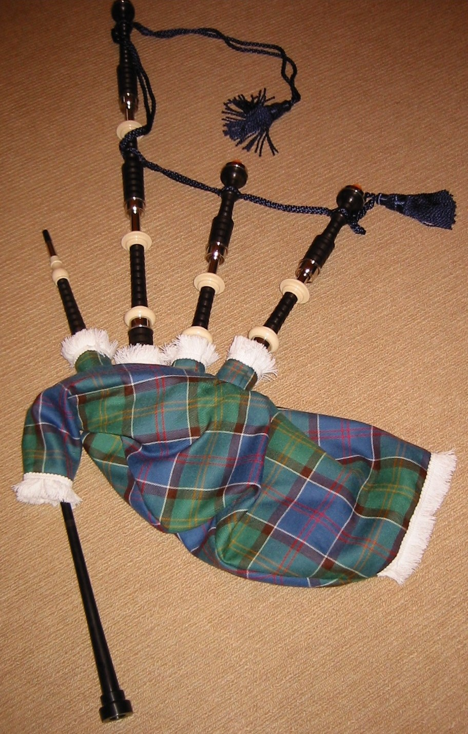 Great Highlands Bagpipe, ugs. auch Dudelsack, mit dem Tartanmuster des County Ayrshire